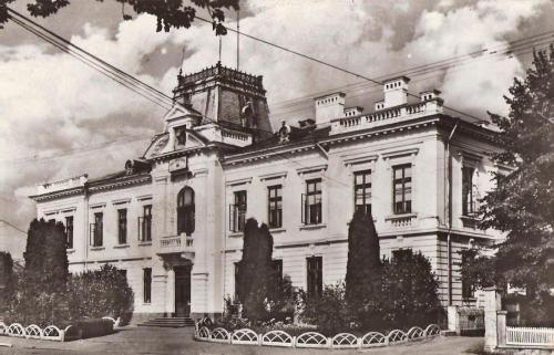 Râmnicu Vâlcea City Hall, illustrated in an early 20th century picture. The historical building was built in 1912.